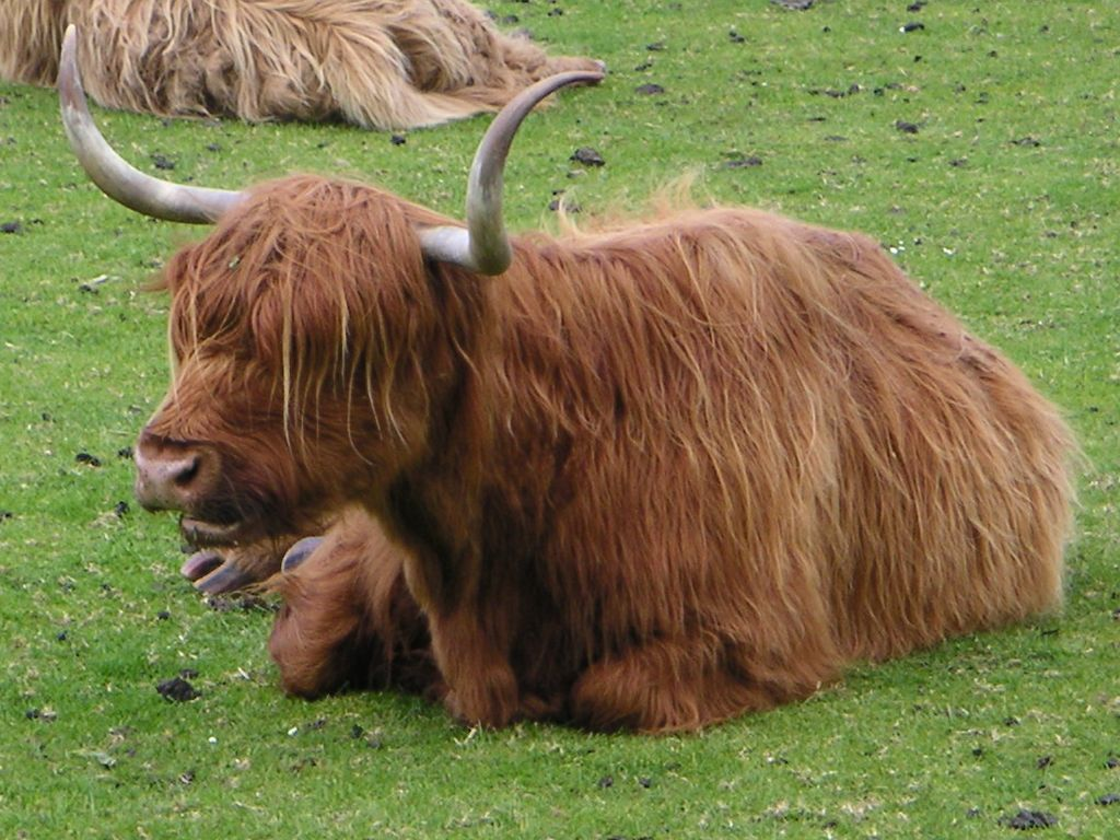 Highland cattle Author: Wojsyl